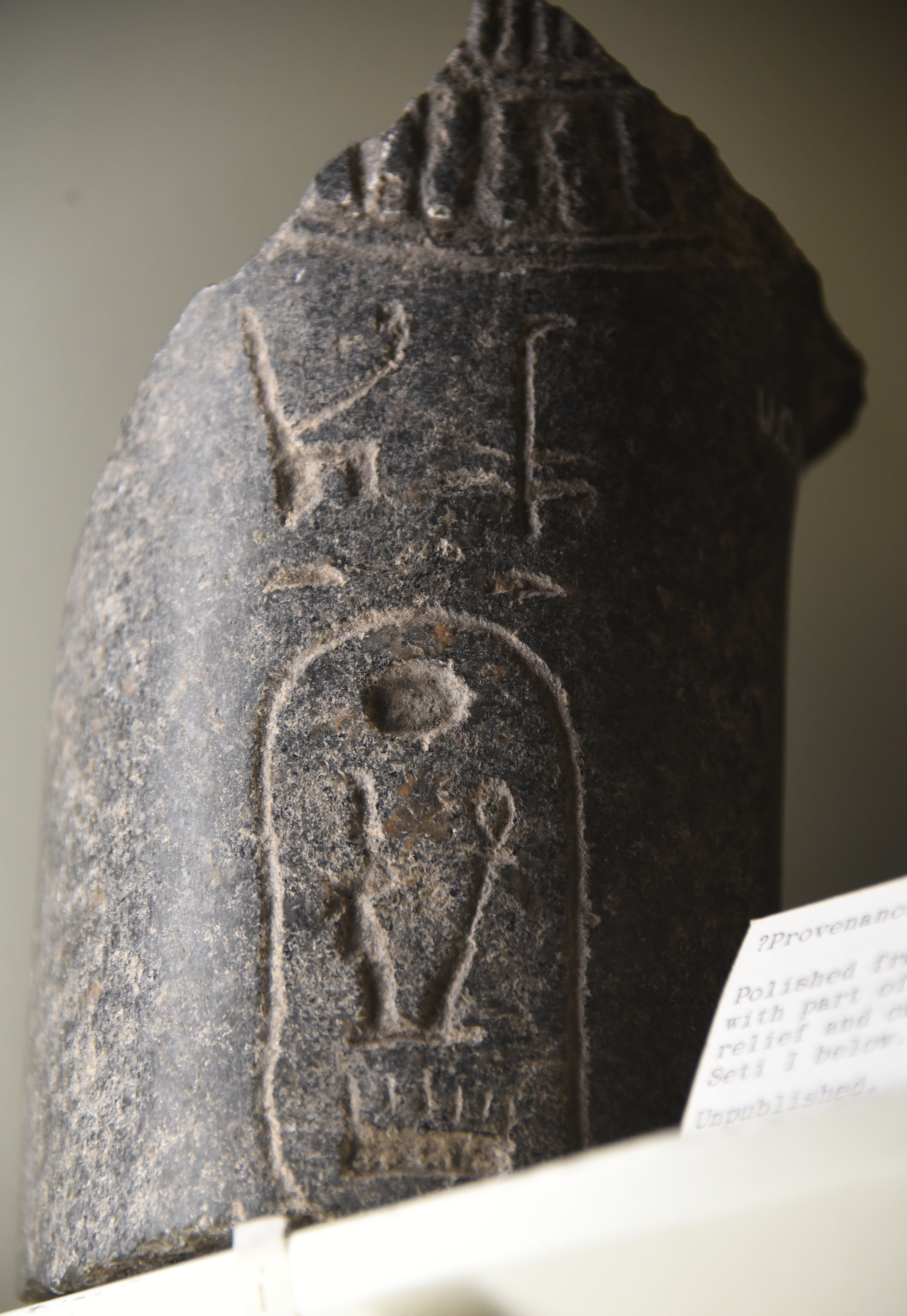 Basalt fragment. Part of a necklace, in relief, is shown together with a cartouche of Seti I. 19th Dynasty. From Egypt. Unpublished. The Petrie Museum of Egyptian Archaeology, London. With thanks to the Petrie Museum of Egyptian Archaeology, UCL.